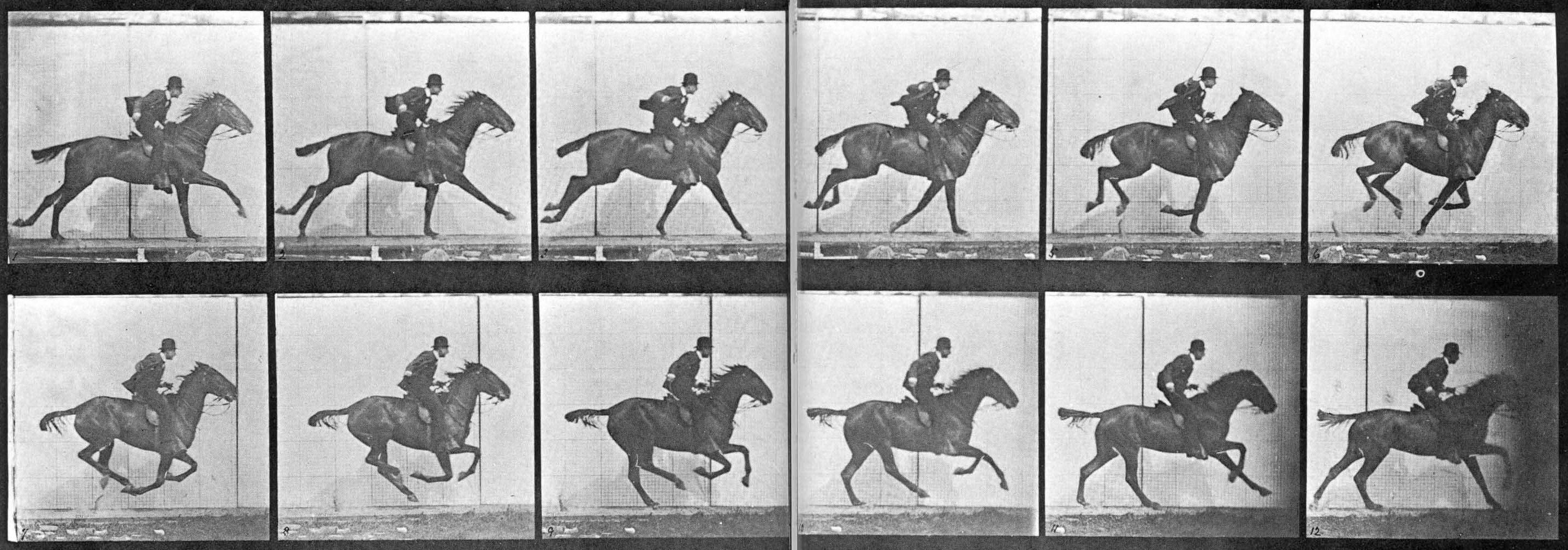 Sequence of a horse galloping by Eadweard Muybridge (d.1904).